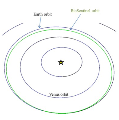 Representative heliocentric orbit of the BioSentinel spacecraft, a fully automated nanosatellite of the 6U CubeSat format. It is planned to be launched in 2018 as one of the 11 secondary payloads onboard the first test flight of NASA's SLS (EM-1 mission) and to be deployed in deep space.